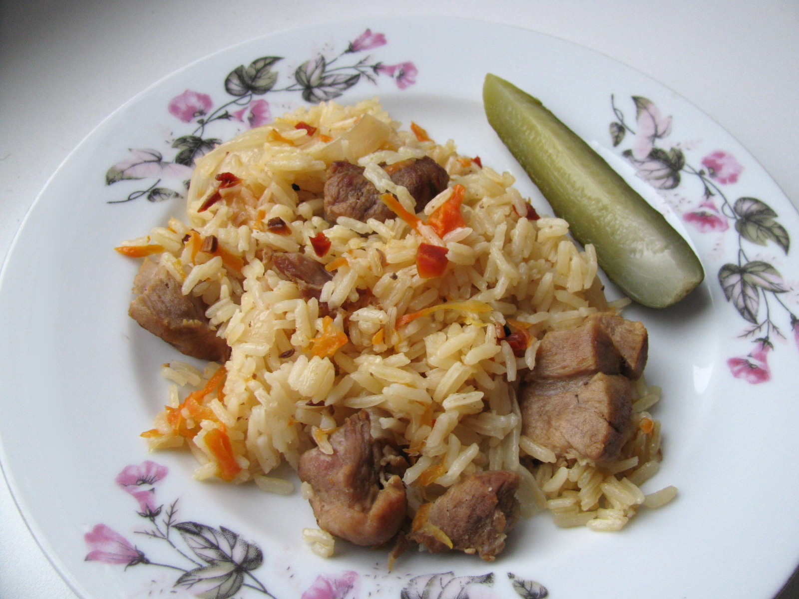 Pilaf (plov) – rice dish with meat and vegetables